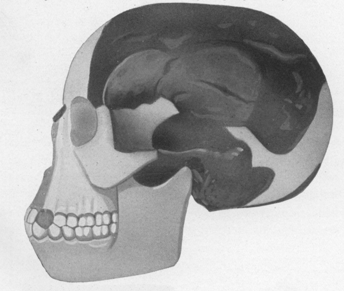 reconstruction of the Pildown man skull